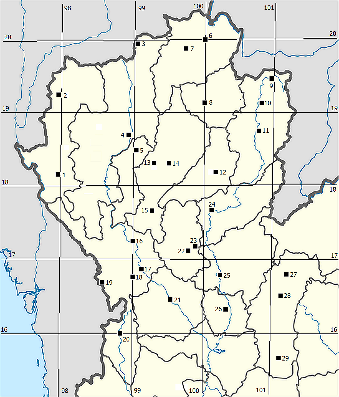 Northern region with 29 weather stations